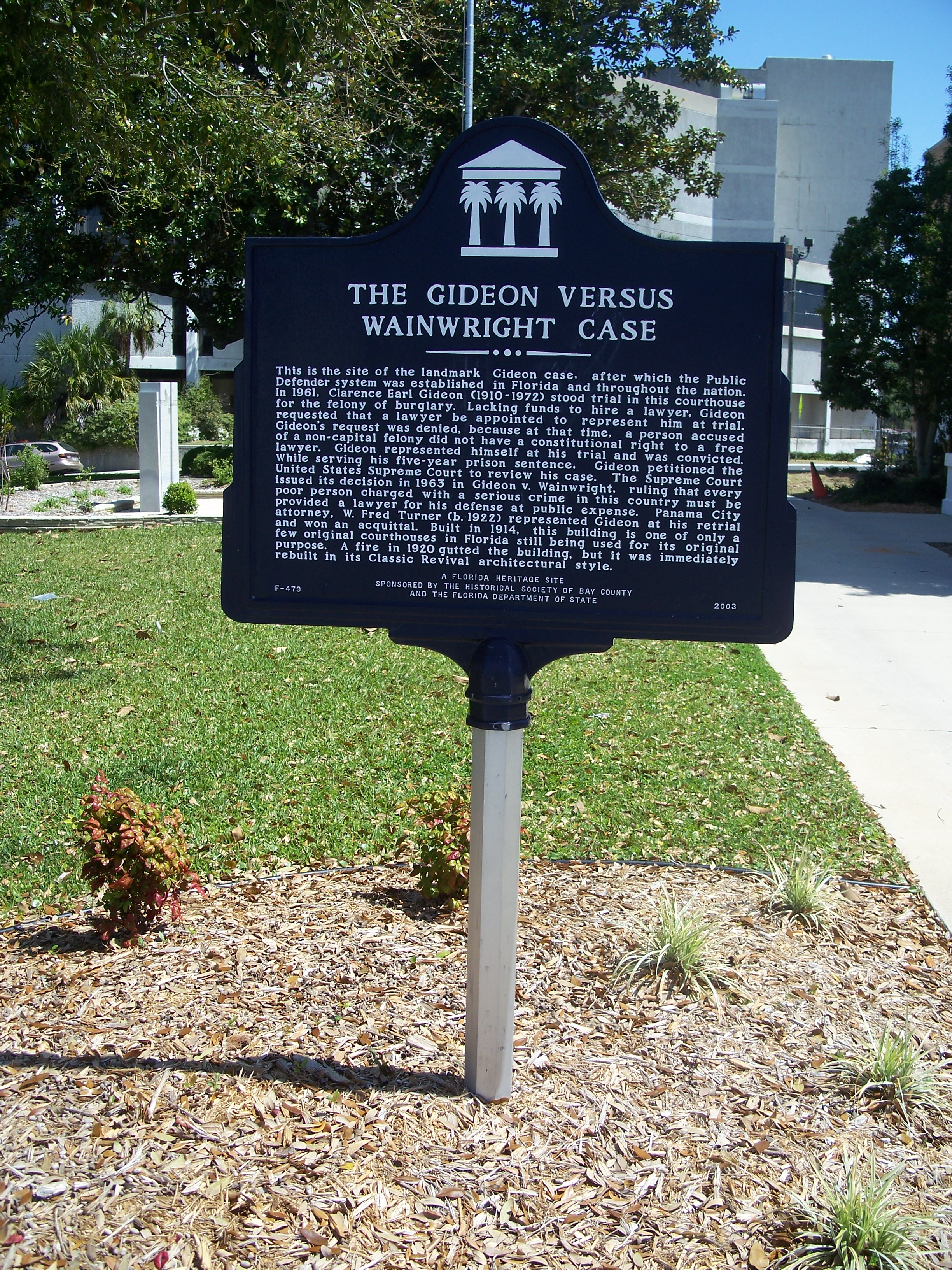 Panama City, Florida: Bay County Courthouse. Historical marker.